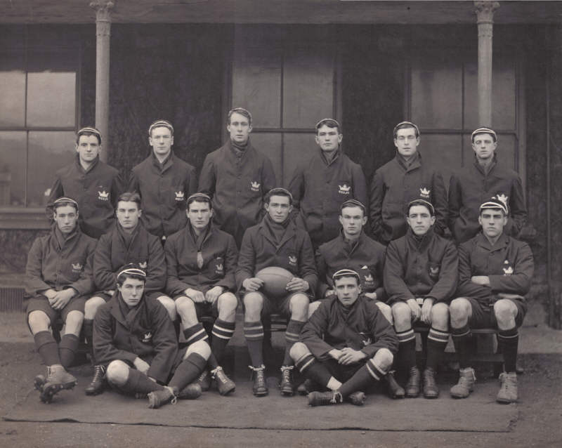 The 1907 Oxford University Rugby Union XV